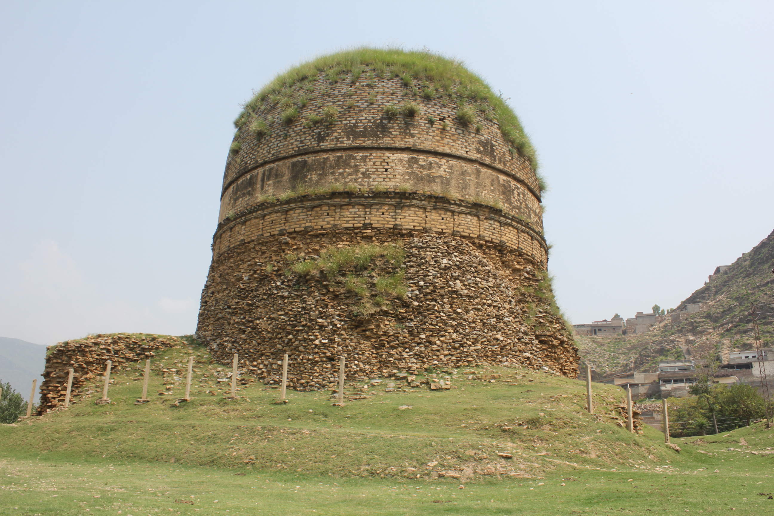 Shingardar stupa This is a photo of a monument in Pakistan identified as the KPK-78